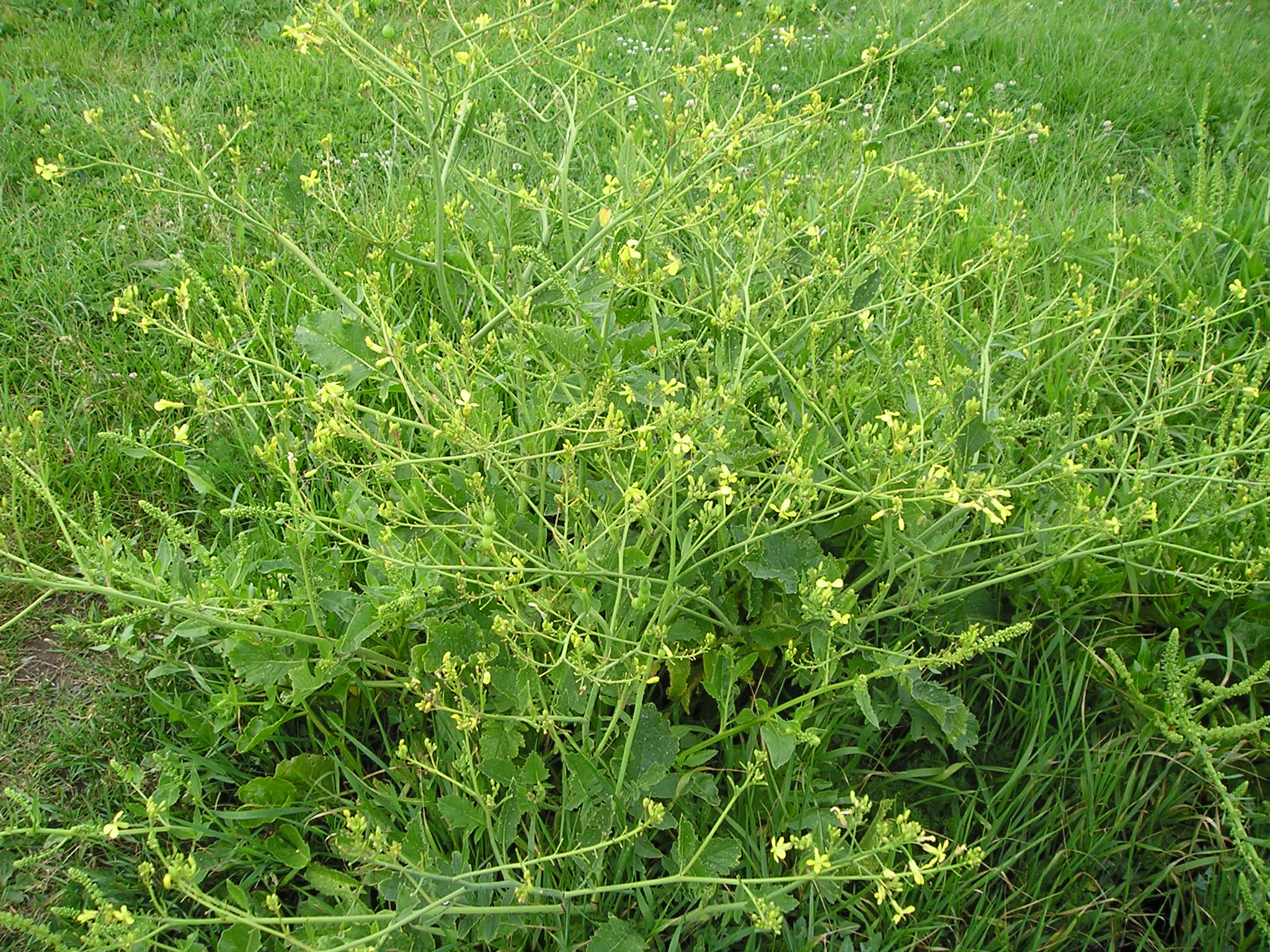 Raphanus raphanistrum growing at the top of a shingle beach in Anglesey